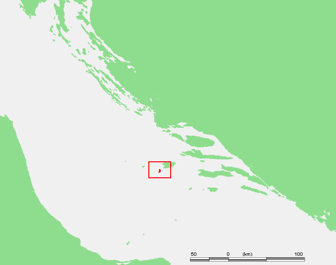 Island of Croatia - Croatia - Bisevo.PNG